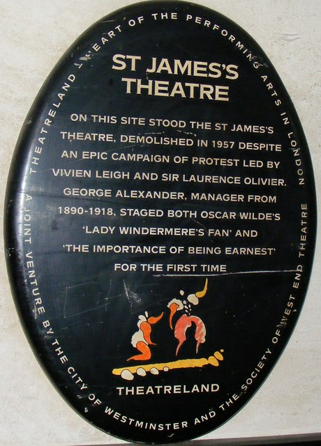 On this site stood St James's Theatre Crown Passage